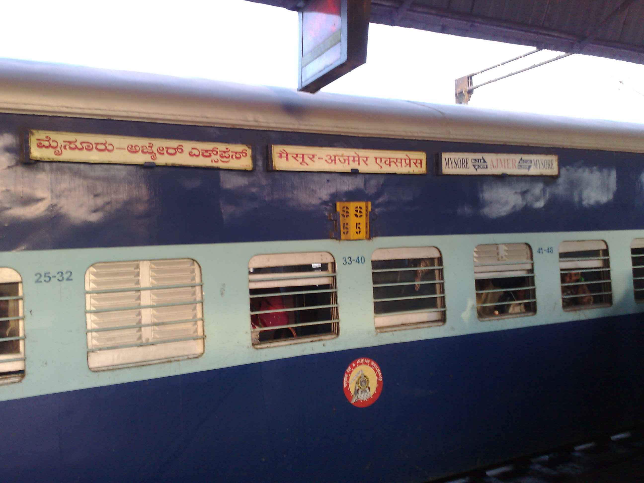 Mysore Ajmer Express - Sleeper Coach